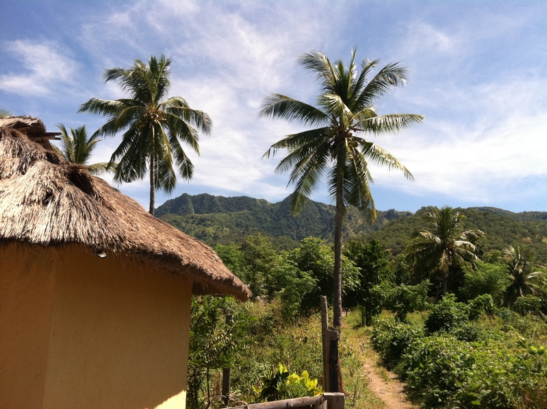 Atauro island